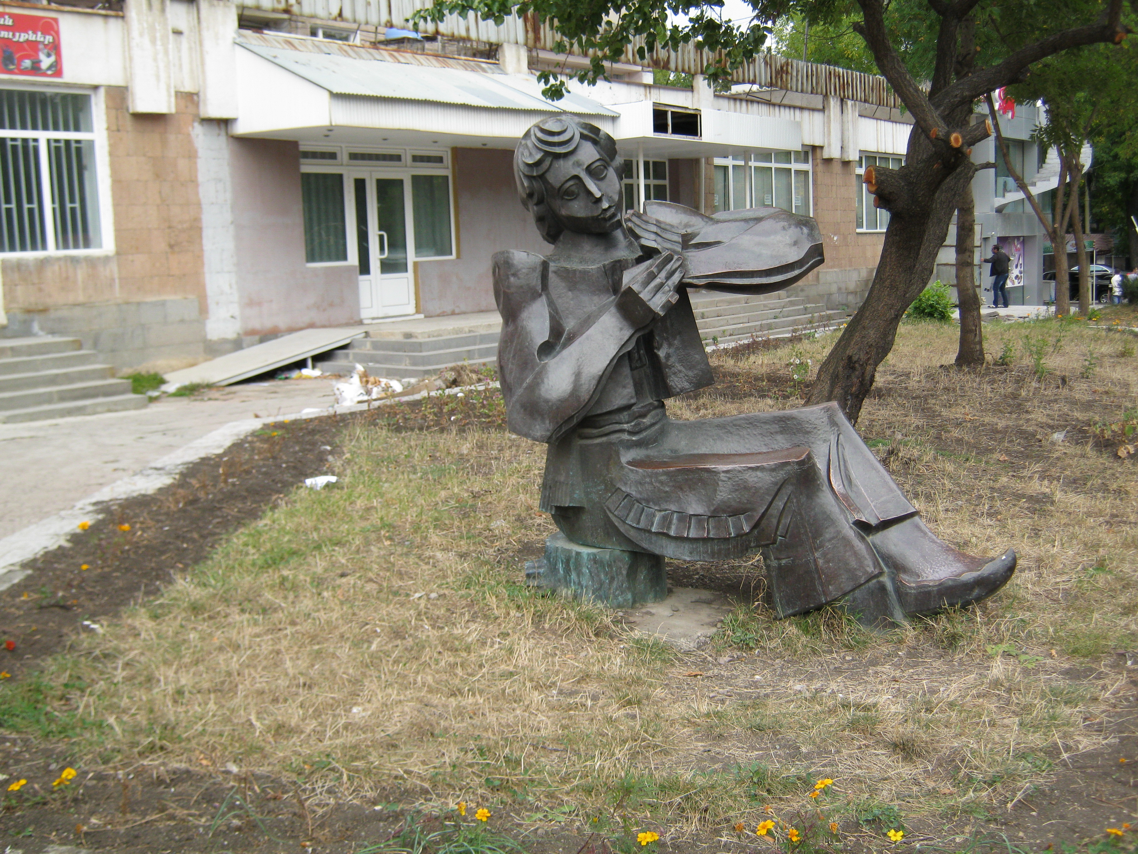 Artsakh square in Vanadzor